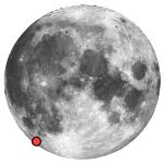 Description: Location of the Wargentin crater on the Moon. The marker also shows the proximity of the Nasmyth, Phocylides, and Nöggerath craters. Source: This is a modified version of a photo obtained from the NASA Planetary Photojournal. It was modified by RJHall. Width: 150 pixels Height: 150 pixels